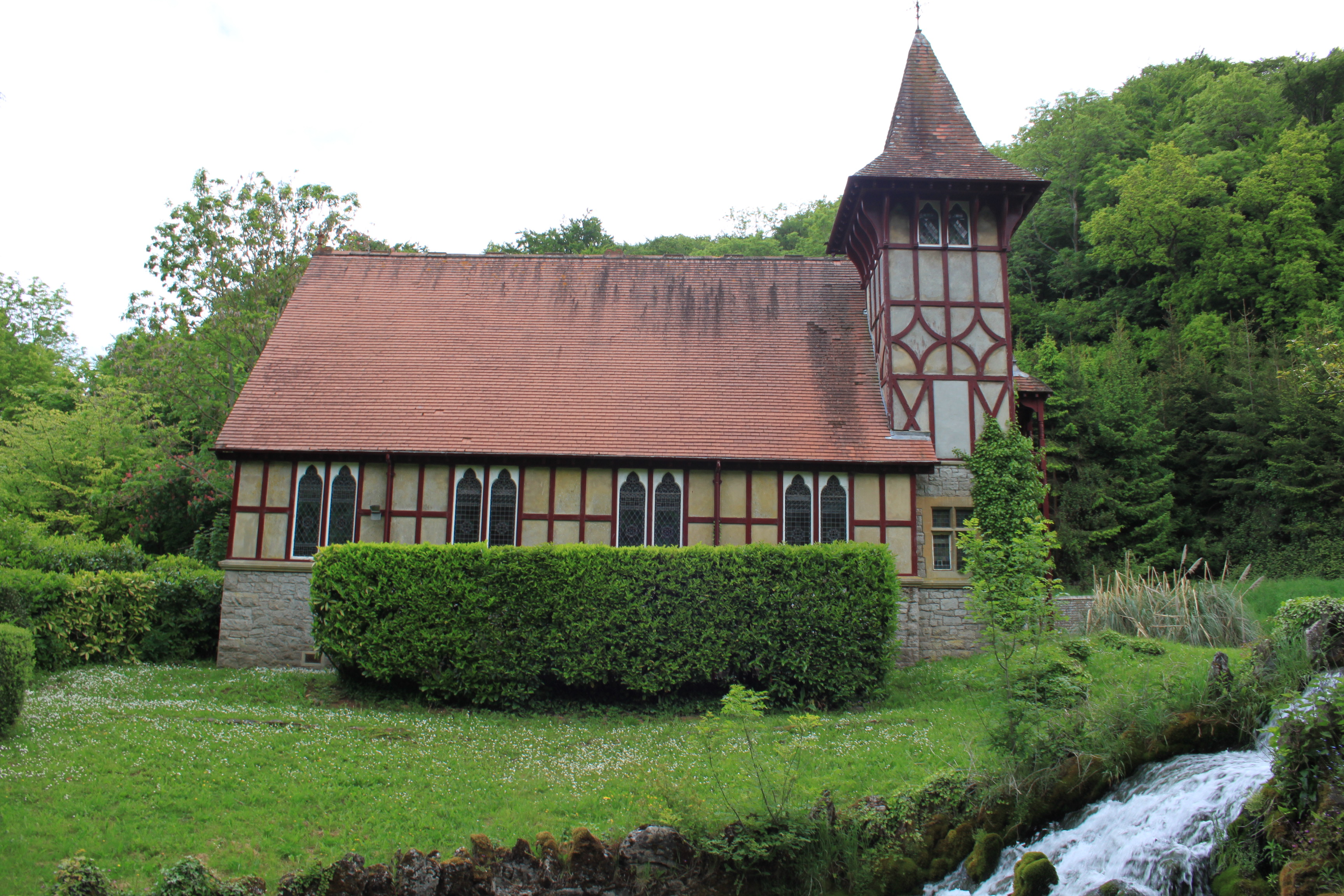 Former Methodist chapel at Rickford, Somerset, seen from the southwest. The chapel is now a Masonic lodge.